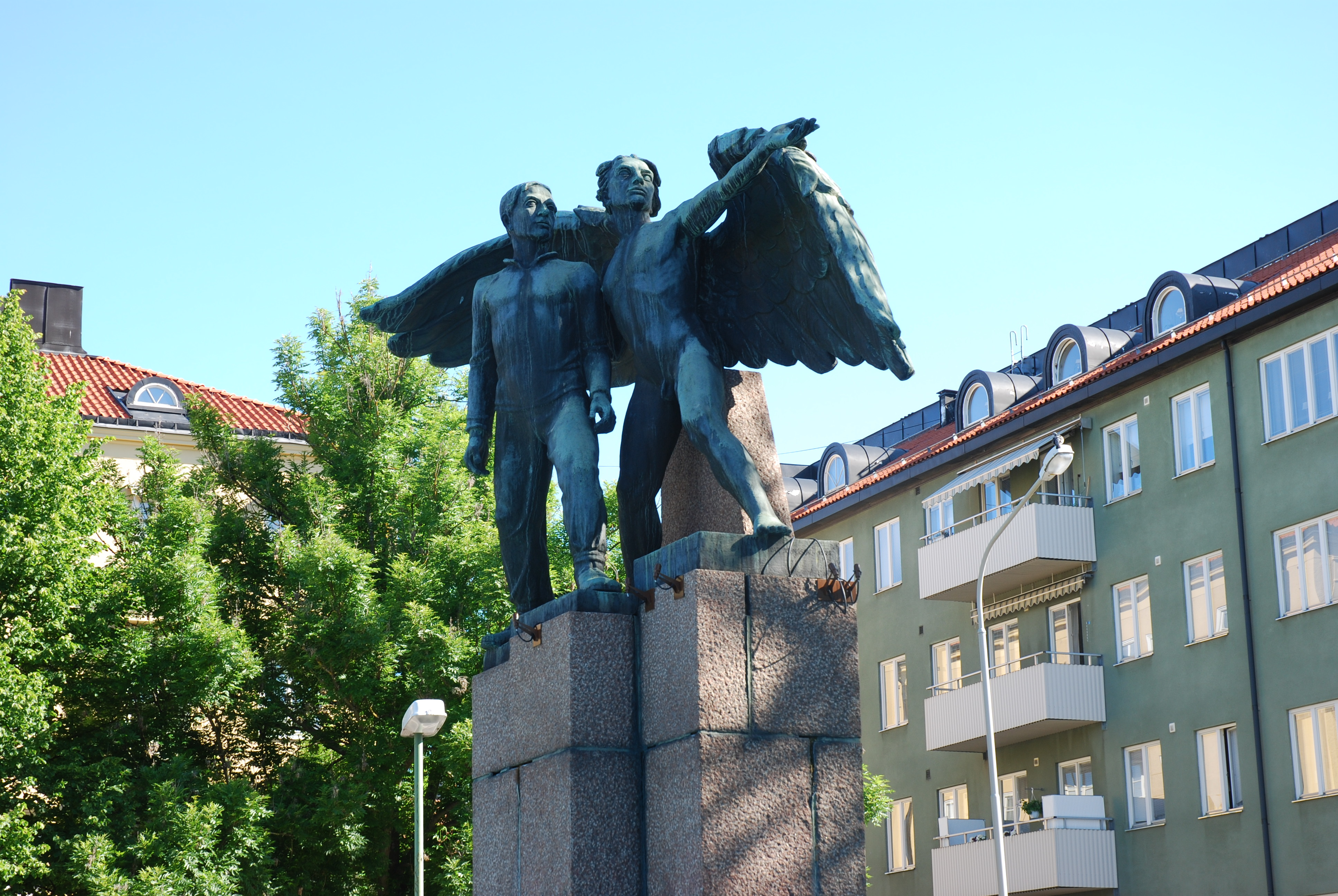 Ivar Johnsson Mannen och hans genius, Linköping